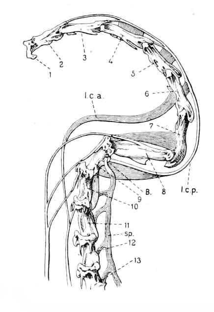 Spinal bones of Anhinga